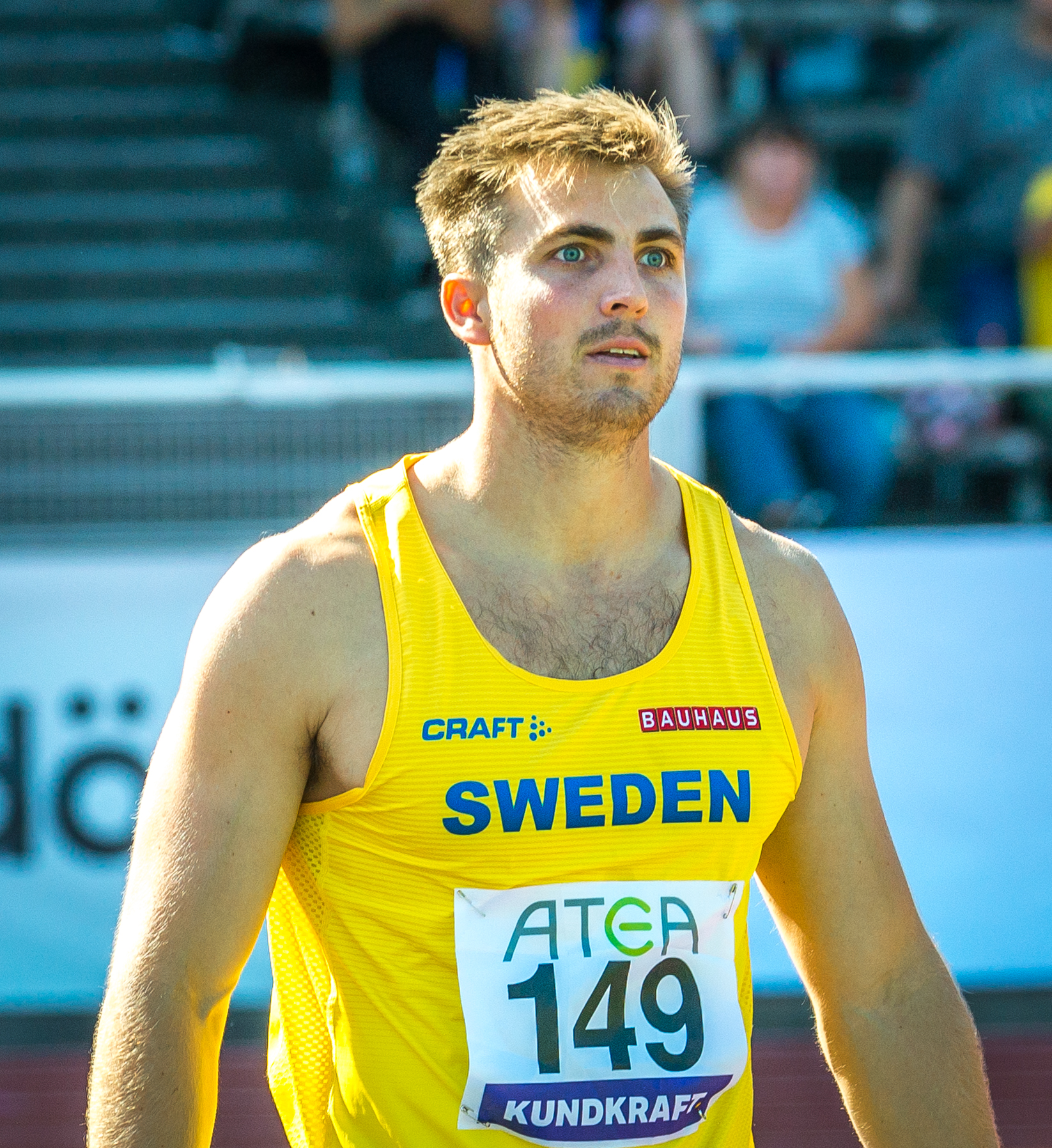 Kim Amb during the Finland-Sweden athletics international at Stockholm Stadium in August 2019. Amb wins the javelin throw competition and sets a personal record with 85.89.